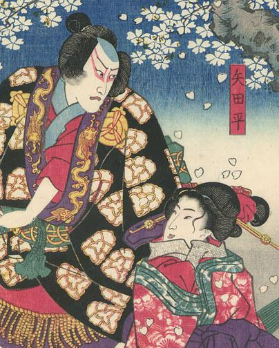 early 1840s Series: Hundred Poets, One Poem Each 2 Prints; woodcuts Color woodblock print